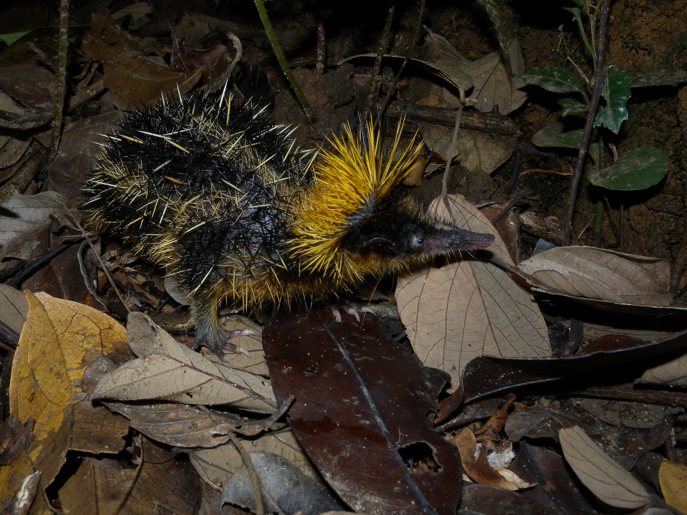 Lowland Streaked Tenrec, Masoala National Park, Madagascar